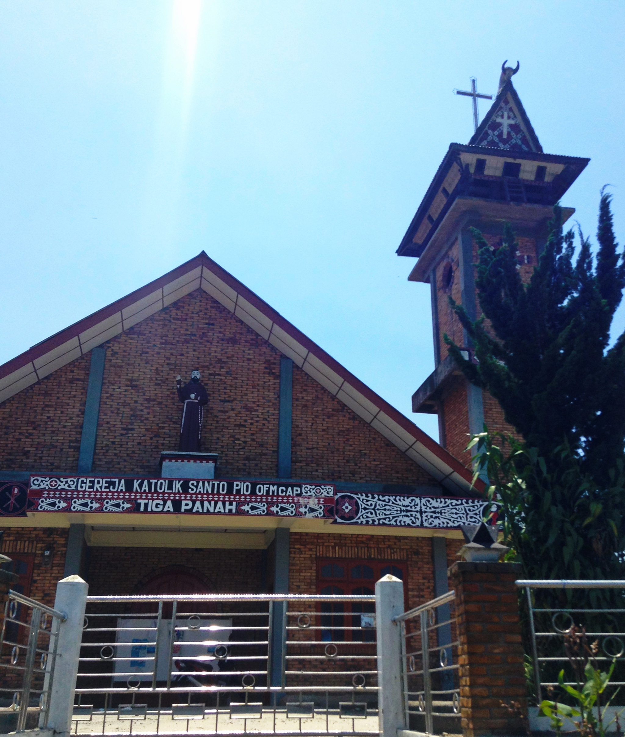 Santo Pio Catholic Church in Tigapanah, Karo